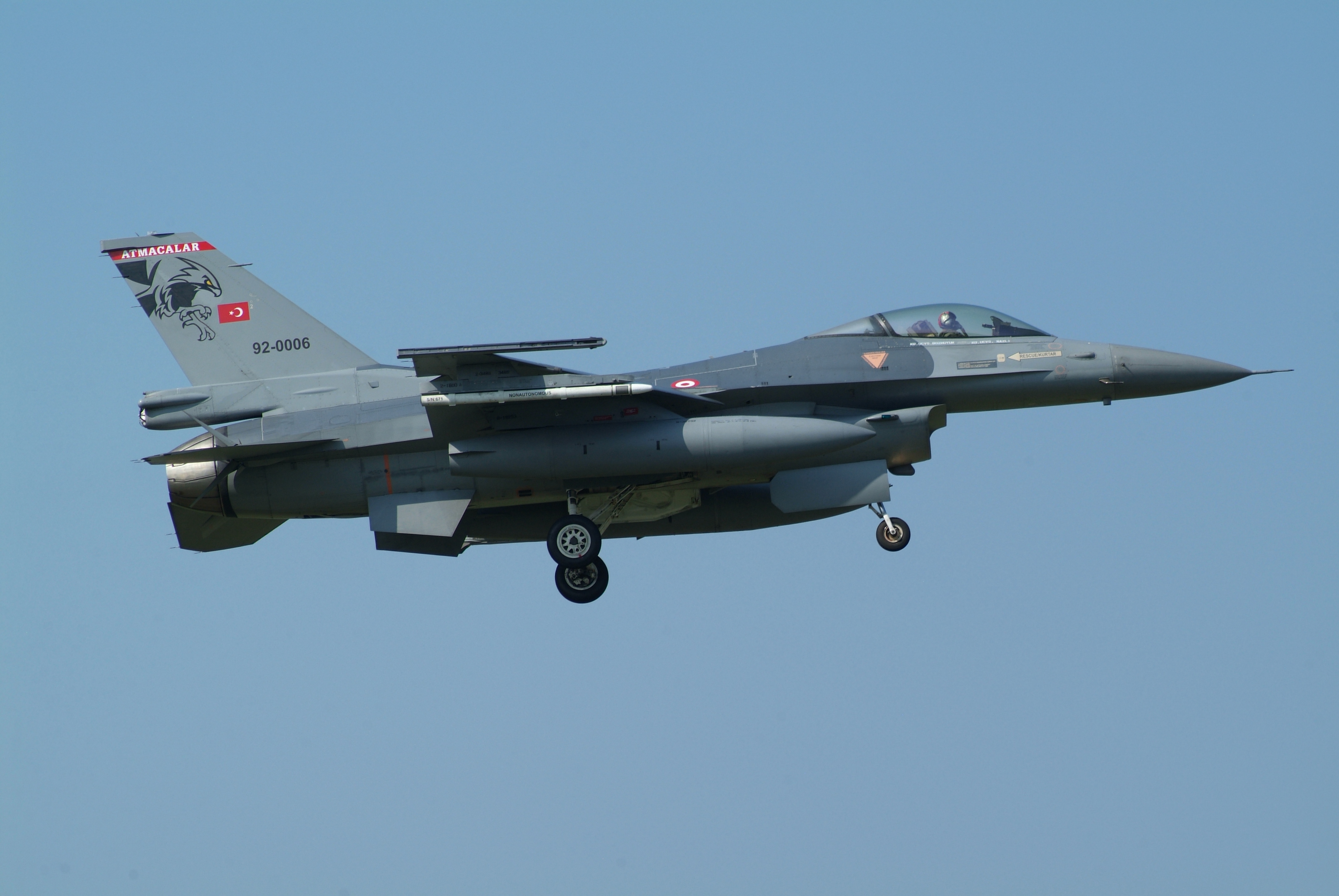 The 'Stars' of the show, although they were Vipers rather than F-104s as they would have been in the good old days, were these Turkish air Force F-16s.